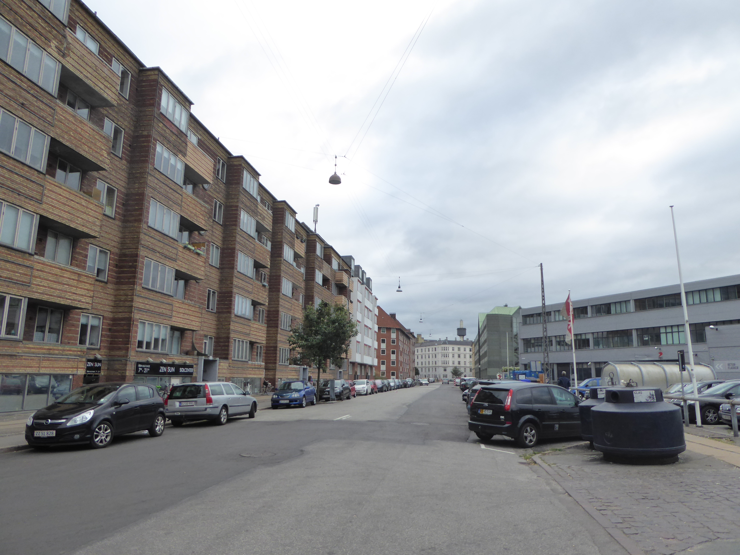 The street Bryggervangen in Østerbro in Copenhagen.